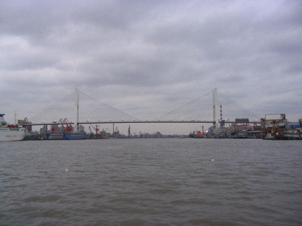 南浦大橋 Nanpu Bridge